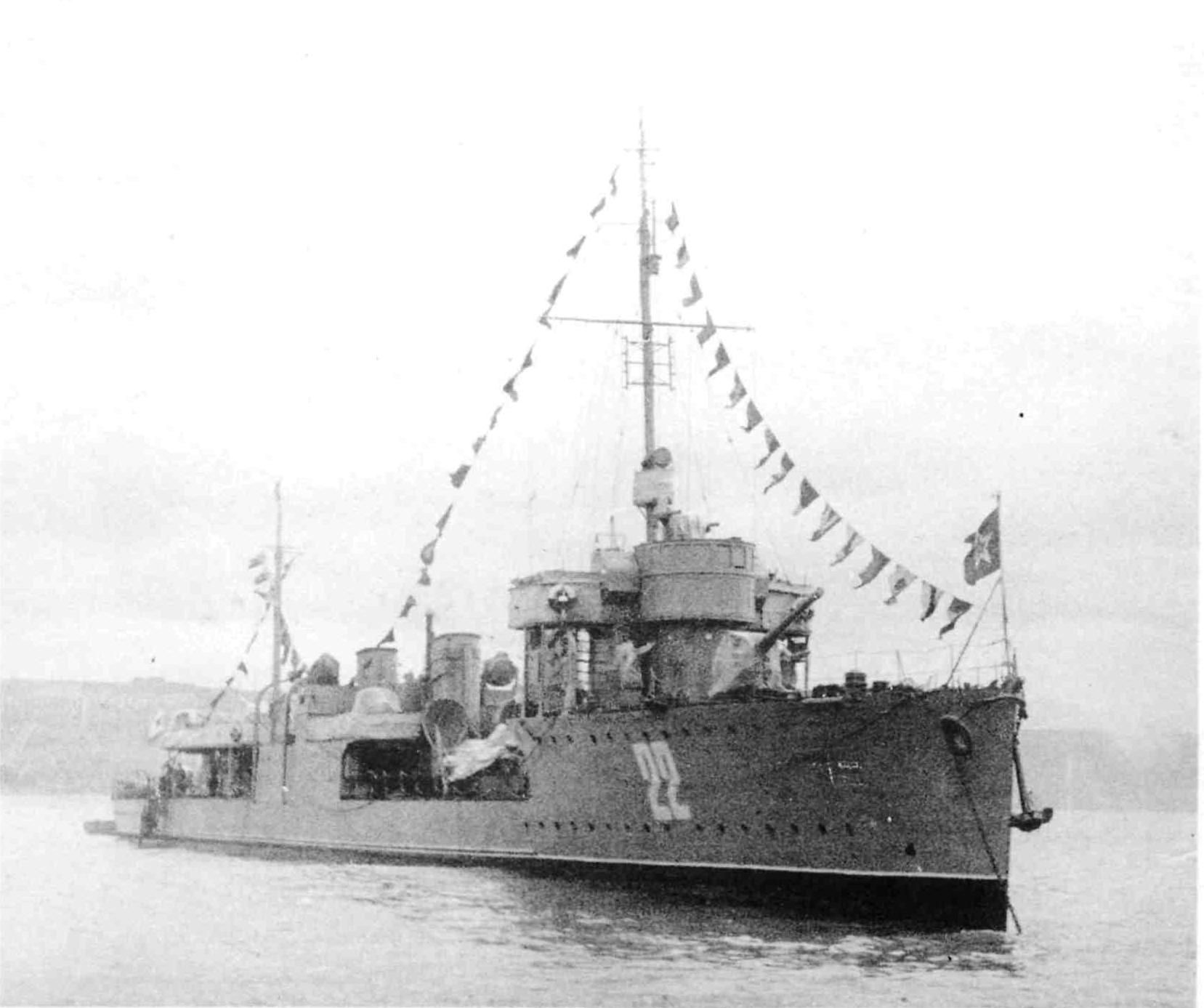 Soviet destroyer Nezamozhnik.